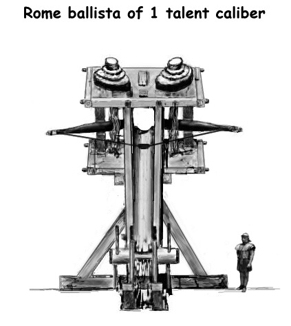 Ballista made by a BBC team for «Building the Impossible: The Roman Catapult» (educational programm). Ballista weight was 8.5 t and it can throw the stones of 1 talent (26 kg).